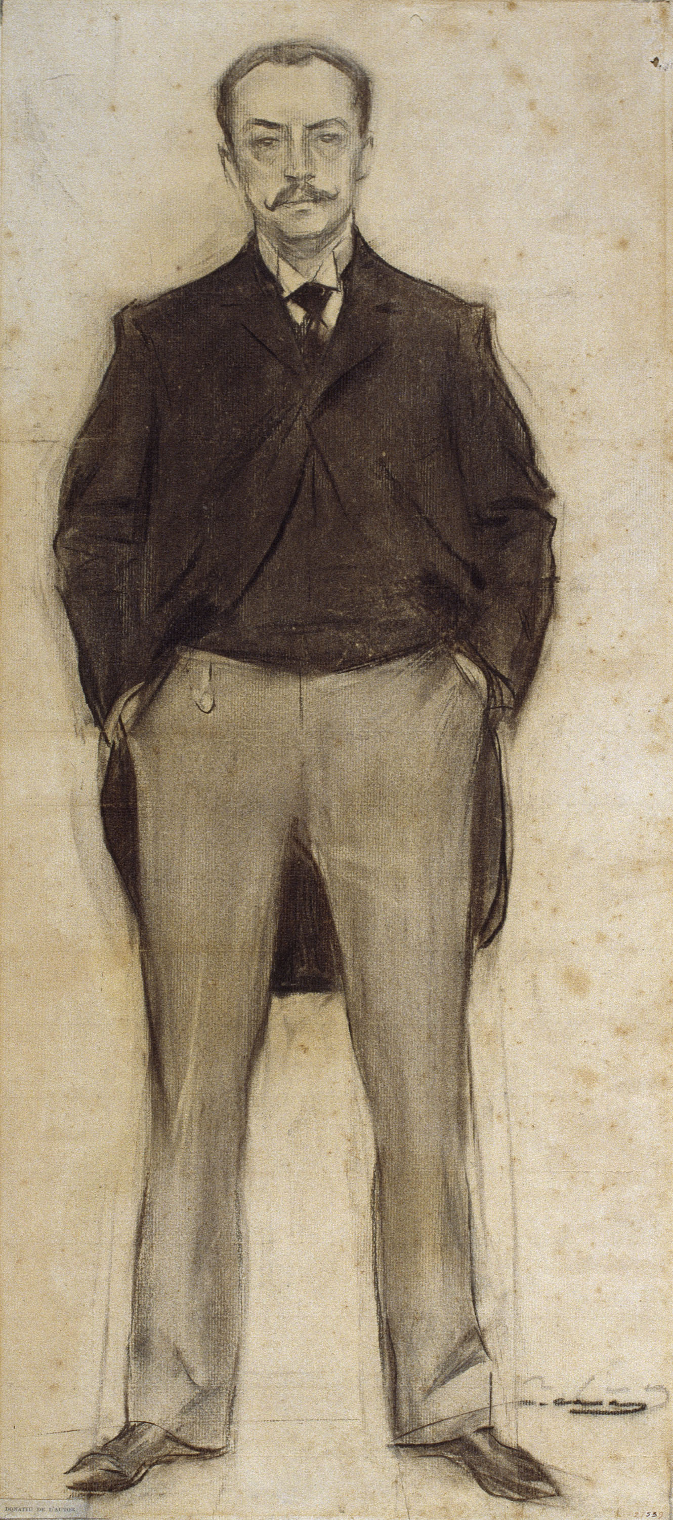 Portrait by Ramon Casas conserved at MNAC in Barcelona.